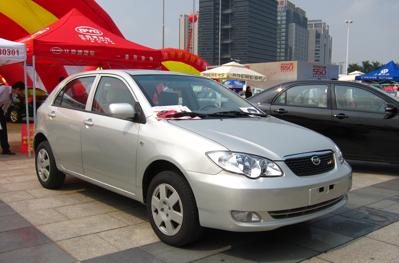 BYD Auto model F3R (hatchback)